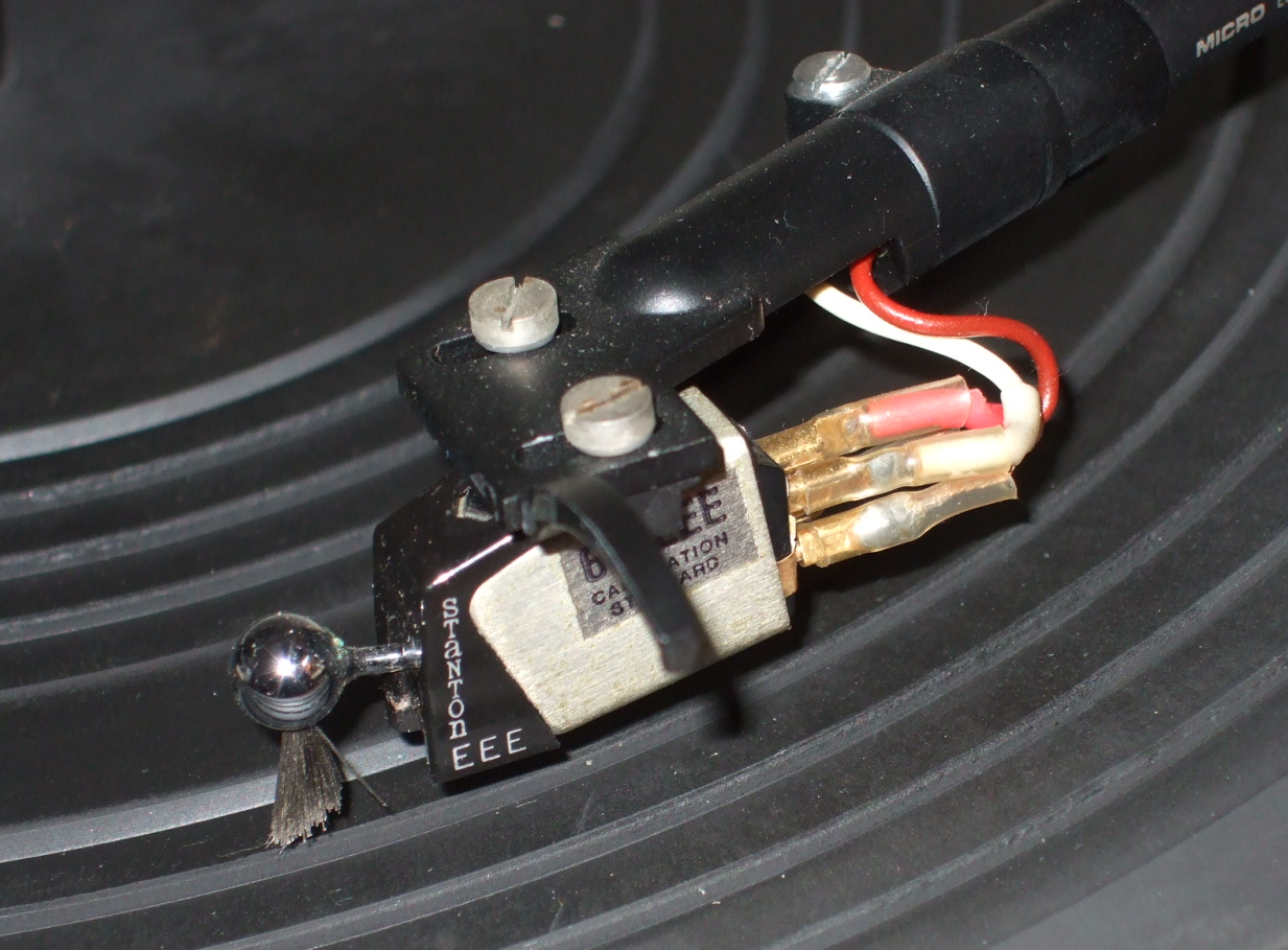 Stanton 681EEE Cartridge on Micro Seiki DD-33 to change for an ADC TRX-2/TRX-1 cartridge